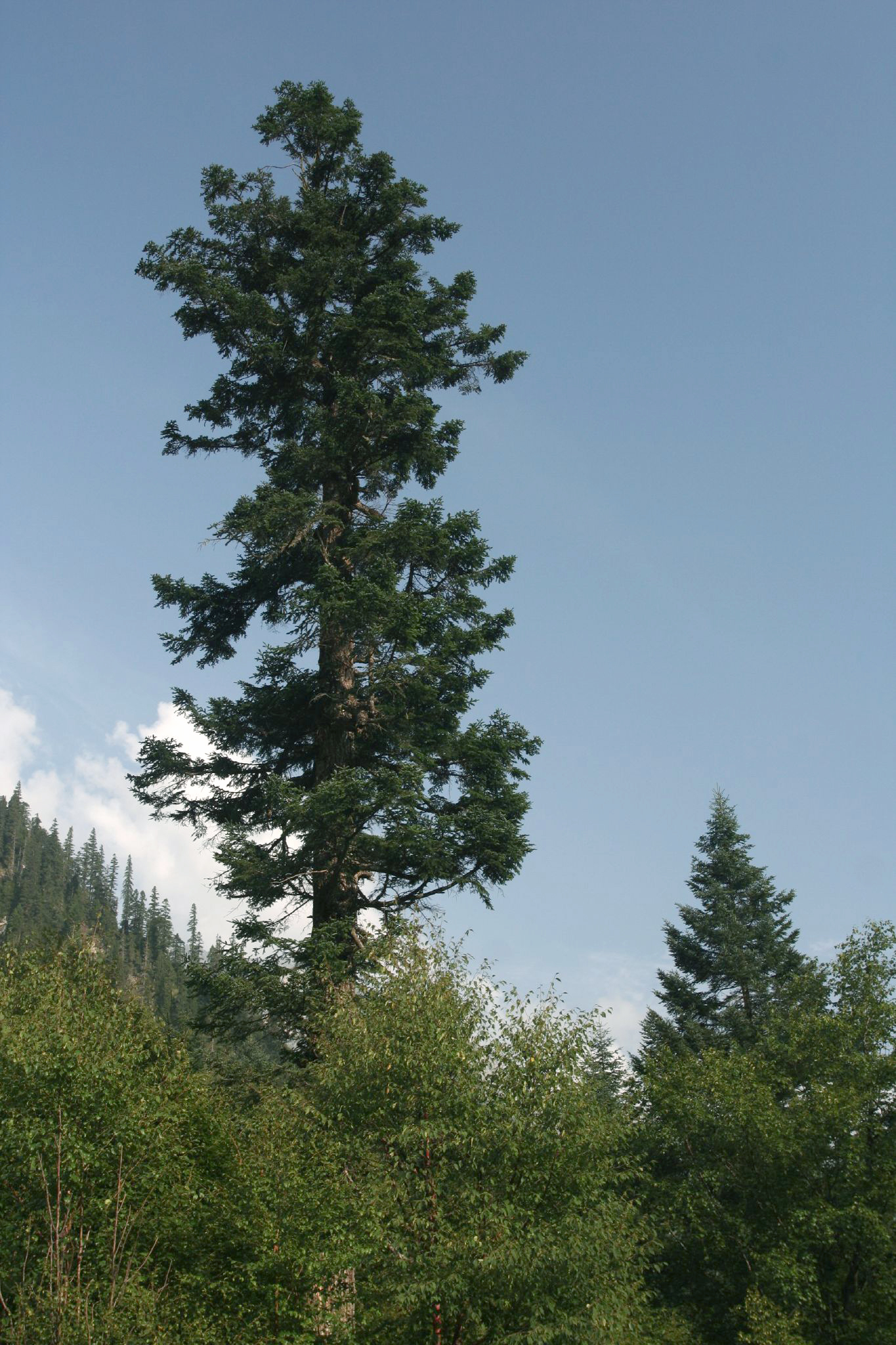 Abies fargesii tree, Jiuzhaigou Valley, Sichuan, China, 2650m altitude.